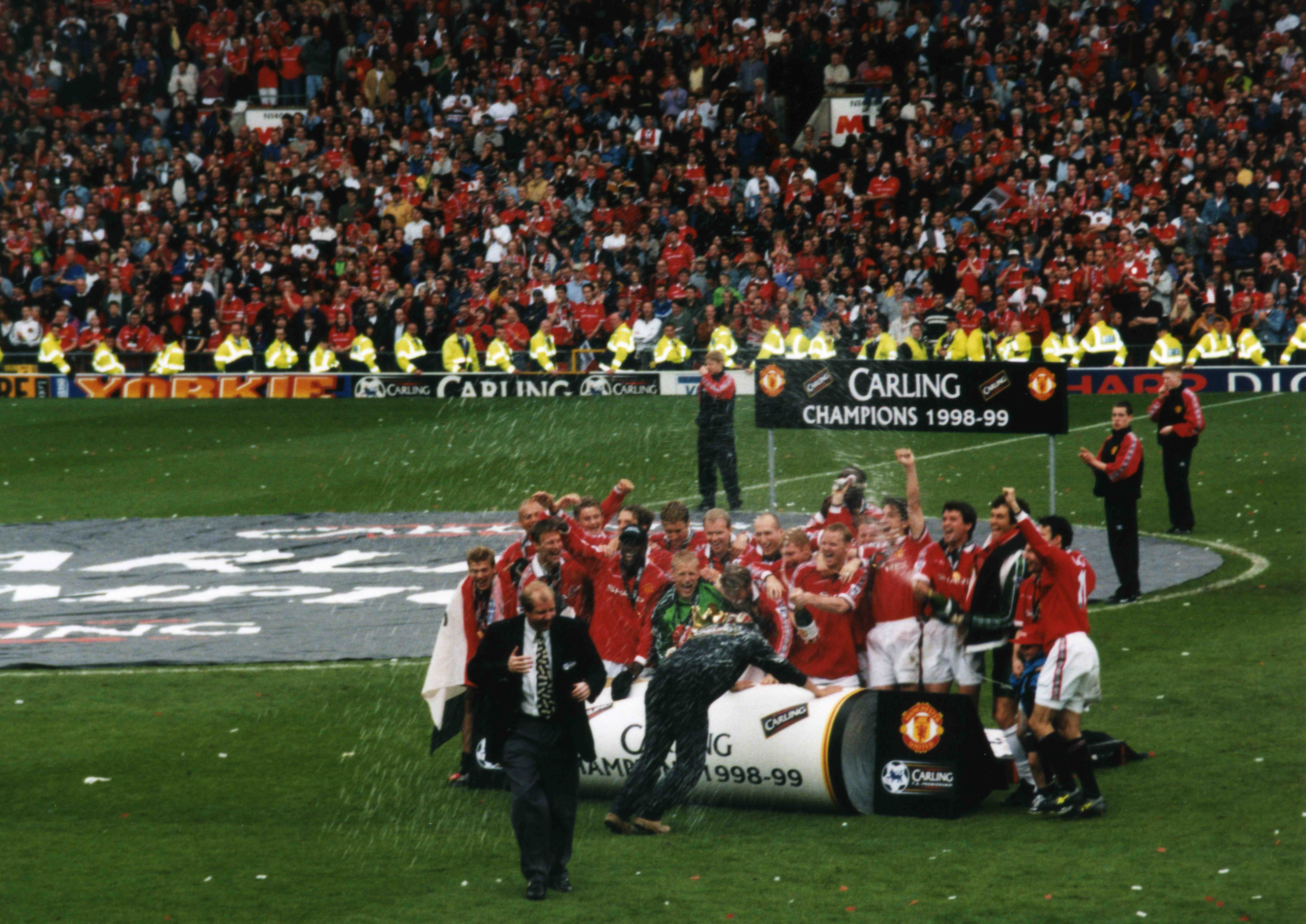 The Manchester United team celebrate winning the 1998–99 FA Premier League title after their victory over Tottenham Hotspur at Old Trafford, Manchester, on 16 May 1999